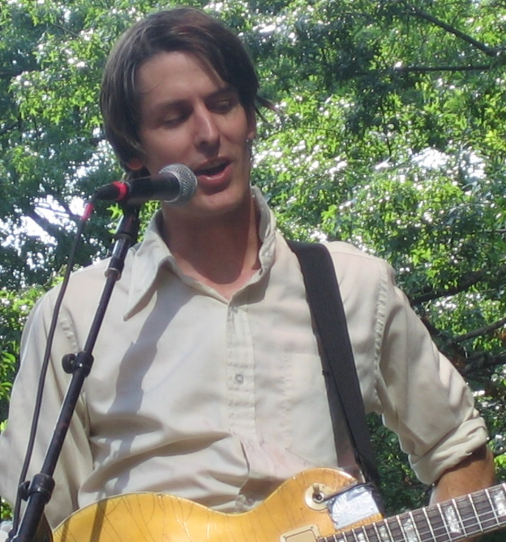 This is a picture of musician Stephen Malkmus, taken by Karl Ward on 4 July 2005 at the River To River Festival show in Battery Park in New York City. A Canon Powershot SD200 digital camera was used to capture the image. Copyright (c) 2005 Karl Ward.